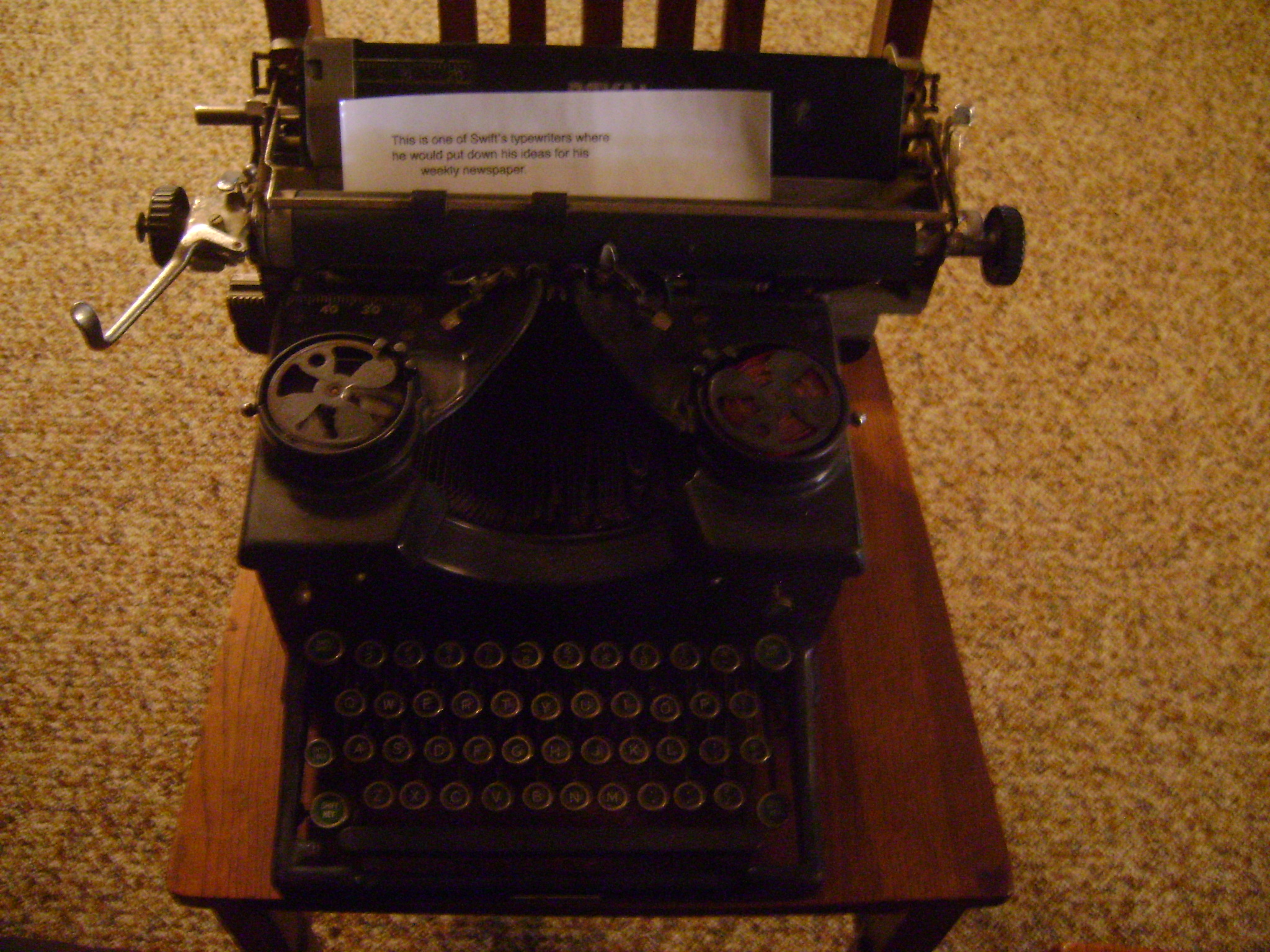 Swift Lathers' typewriter for composing articles of The Mears News